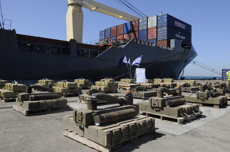 March 16, 2011 Pictured here: There were approximately 2,500 mortar shells on the "Victoria" ship. The weaponry was transferred without the knowledge of the vessel's crew. The IDF Navy intercepted the cargo vessel “Victoria” loaded with various weaponry. According to assessments, the weaponry on-board the vessel was intended for the use of terror organizations operating in the Gaza Strip. The vessel, flying under a Liberian flag, was intercepted some 200 miles west of Israel’s coast. This incident was part of the Navy’s routine activity to maintain security and prevent arms smuggling, in light of IDF security assessments. The vessel initially departed from the Lattakia Port in Syria, and then proceeded to Mersin Port in Turkey. The IDF emphasizes that Turkey has no connection to this incident regarding the weaponry uncovered on-board. For more information